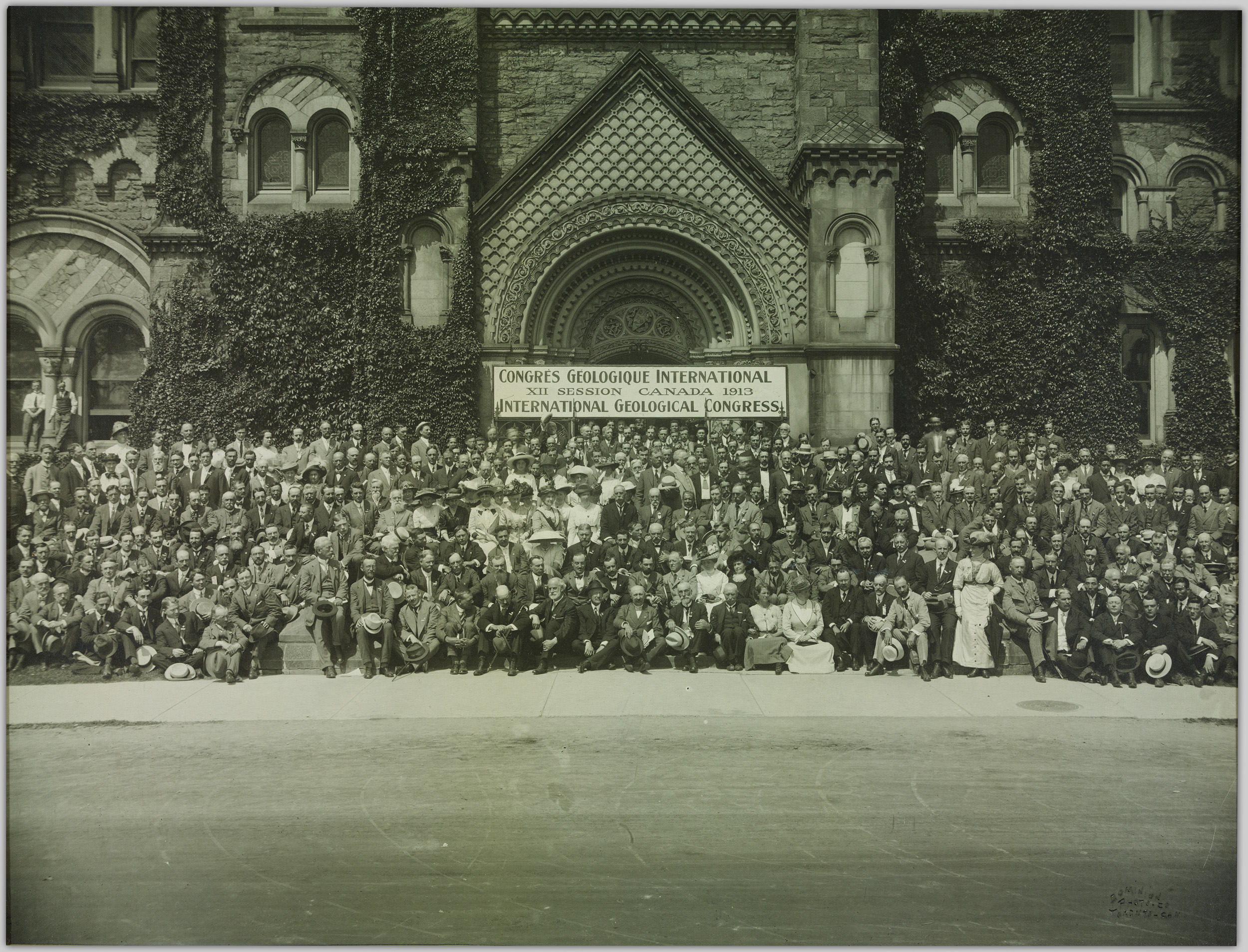 No known copyright restrictions. Please credit UBC Library as the image source. For more information, see 12th Session of the International Geological Congress 1913, Location of photograph: The Great Door to Main Building, University of Toronto Creator: Unknown Date Created: 1913 Source: Original Format: University of British Columbia. Archives. Institute of Pacific Relations fonds. Permanent URL